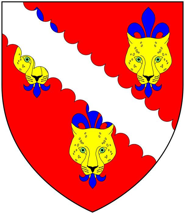 Arms of Tenison: Gules, three leopard's faces or jessant de lys azure overall a bend engrailed argent (Burkes General Armory, 1884). As borne by Edward Tenison (1673–1735), Bishop of Ossory in Ireland and Prebendary of Canterbury Cathedral and by his cousin Thomas Tenison (1636-1715), Archbishop of Canterbury. These are a difference of the arms of Denys of Glamorgan and Gloucestershire, the surname Tenison signifying "son of Denis". No familial relationship is known to have existed between the two families. A further difference was borne by Tennyson, the family of Alfred, Lord Tennyson (Baron Tennyson), the poet.